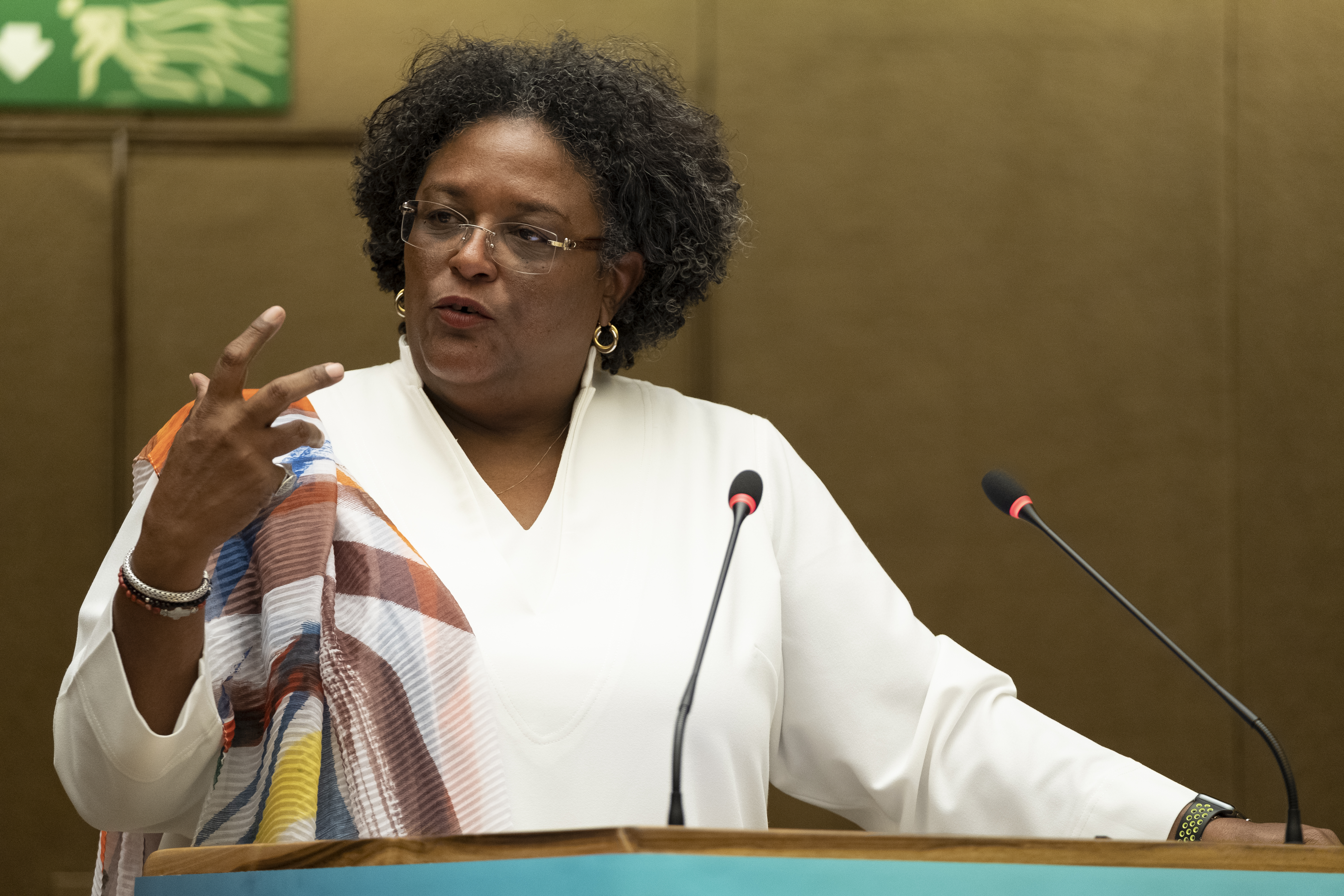 Speaking at the 16th Raúl Prebisch Lecture by The Honorable Mia Amor Mottley, Prime Minister of Barbados, held in Geneva, Switzerland, on 10 September. Photo: Timothy Sullivan (UNCTAD) More